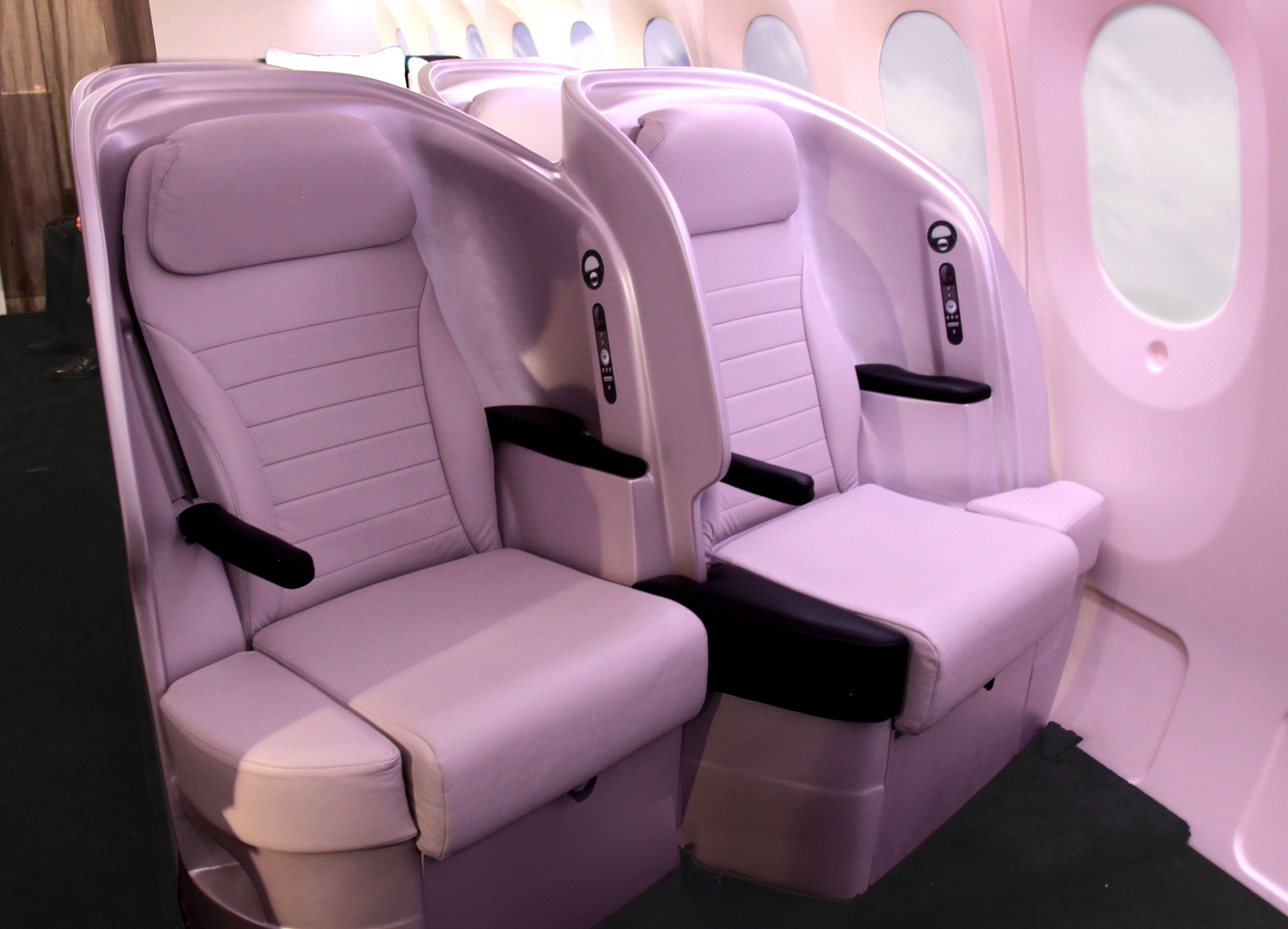 "Outer Space" Premium Economy offers more privacy. Note when reclining, the 'pod' means that the person behind you won't be impeded.